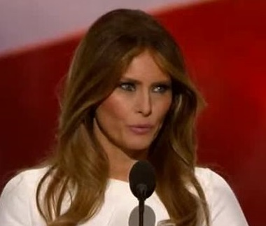 Image of Melania Trump speaking at the 2016 RNC. Created by cropping a still which I extracted from Voice of America's footage of her speech